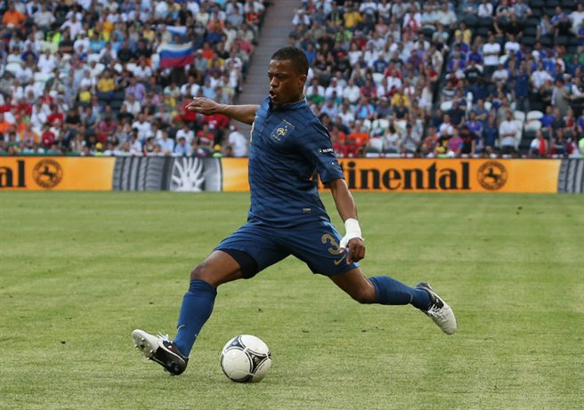 UEFA Euro 2012 match between France and England played in Donetsk at Donbas Arena. Final result was 1:1 (Nasri, Lescott).